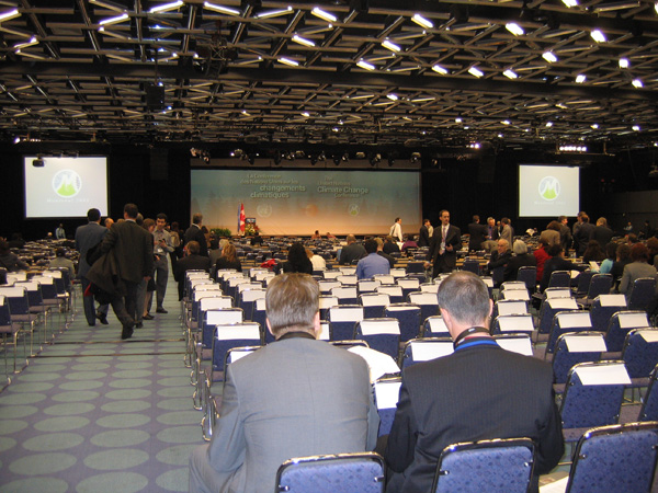 The 11th Conference of Parties to the UNFCCC in Montreal (Canada). Plenary Hall of the Conference before its opening